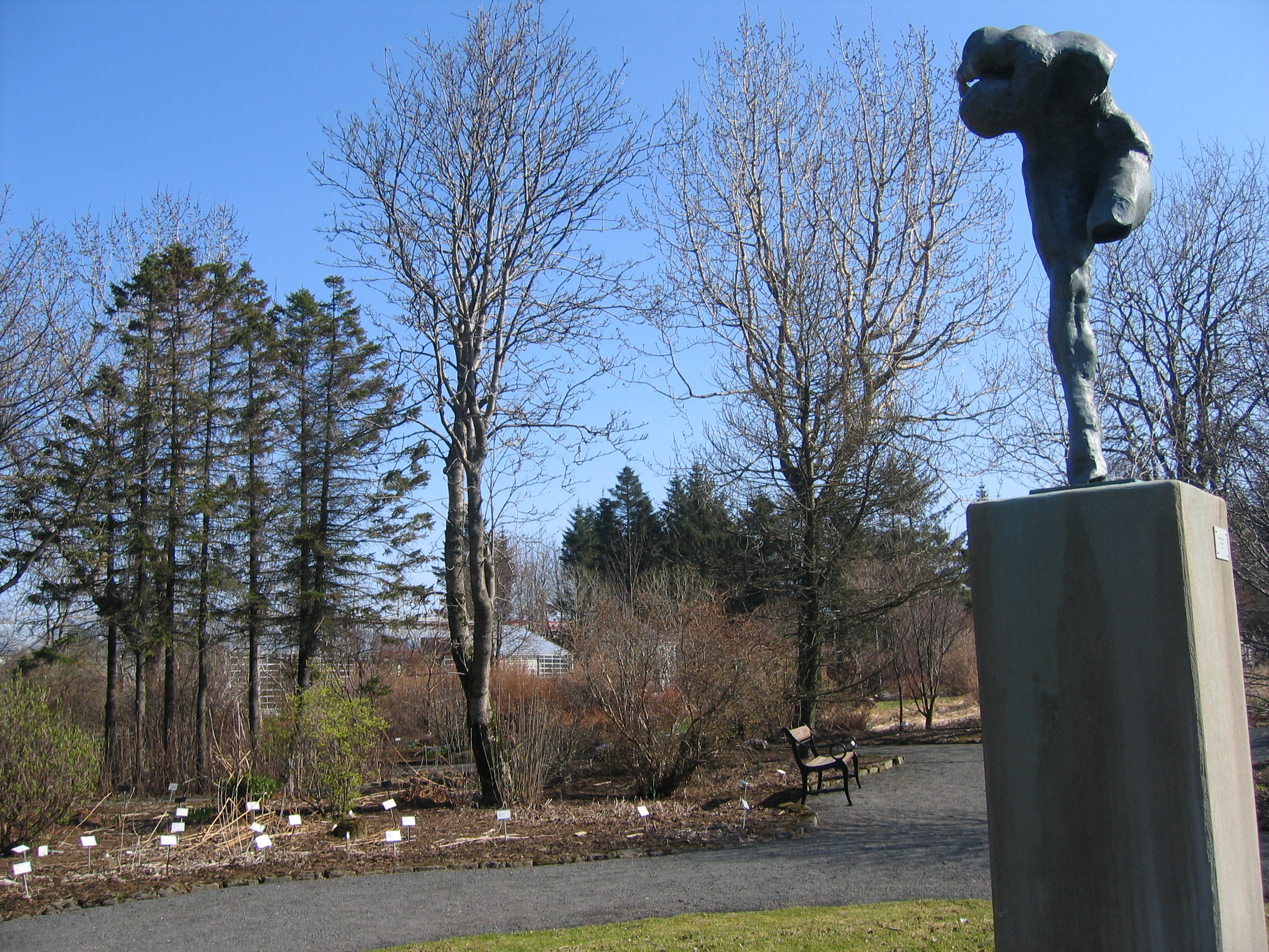 Spring in the Botanical Garden of Reykjavik, Iceland